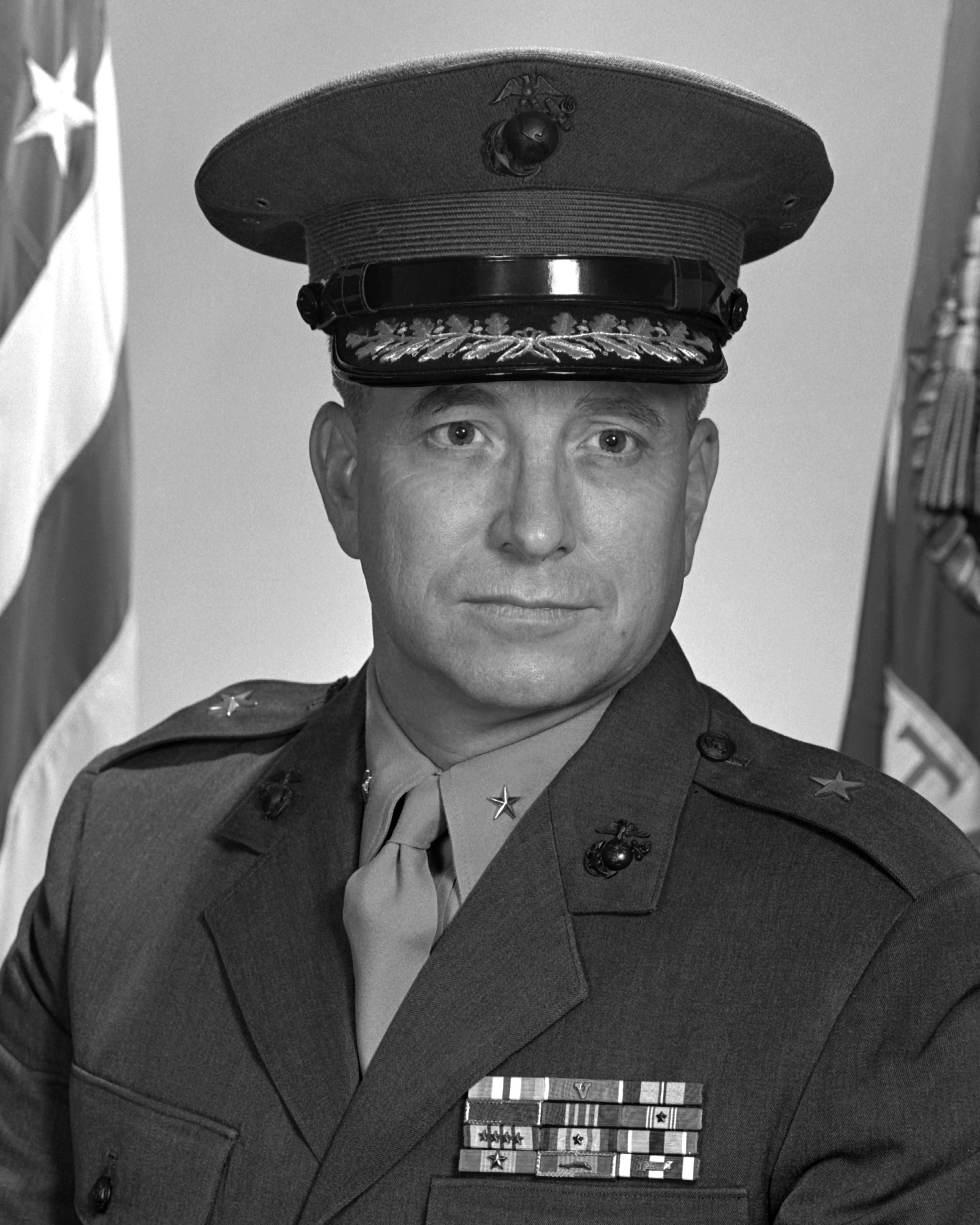 BGEN Edwin J. Godfrey, USMC (covered)